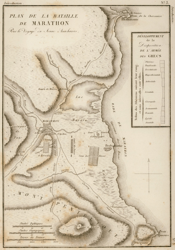 Jean Jacques Barthélemy. Voyage du jeune Anacharsis en Grèce, vers le milieu du quatrième siècle avant l’ère vulgaire. – Atlas, Paris, Abel Ledoux fils, 1832.